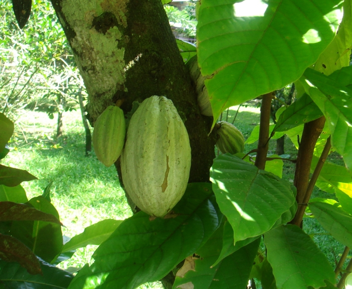 Cacao Mexico